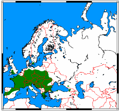 Range map for Bechstein's Bat (Myotis bechsteinii), made by me with help of Map depending on the range map at IUCN red list.